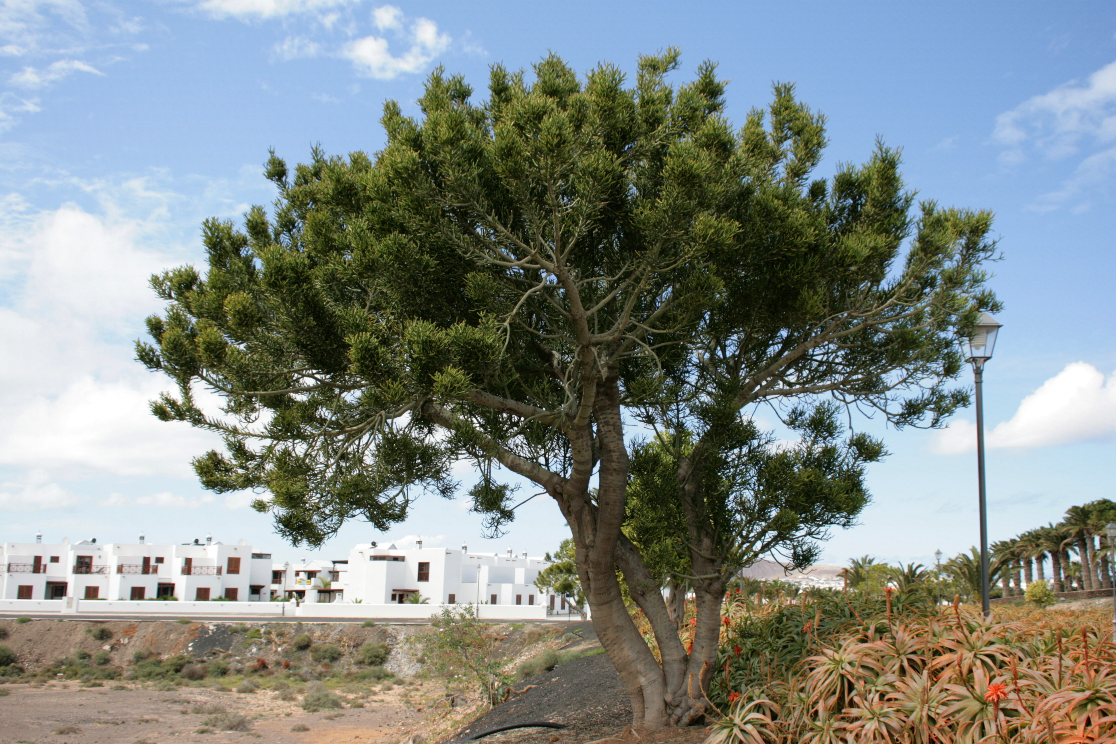 Euphorbia tirucalli grown at Calle La Calera in Playa Blanca, Yaiza, Lanzarote, Canary Islands